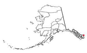 Adapted from Wikipedia's AK borough maps by Seth Ilys.